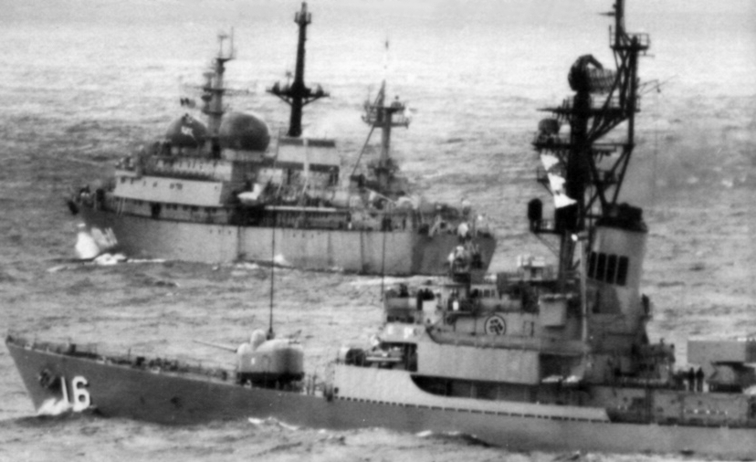 The U.S. Navy guided missile destroyer USS Joseph Strauss (DDG-16) puts herself between the aircraft carrier USS Enterprise (CVN-65) and a Soviet Balzam class intelligence collecting ship during the carrier's deployment to the Western Pacific and the Indian Ocean between 5 January and 3 July 1988.